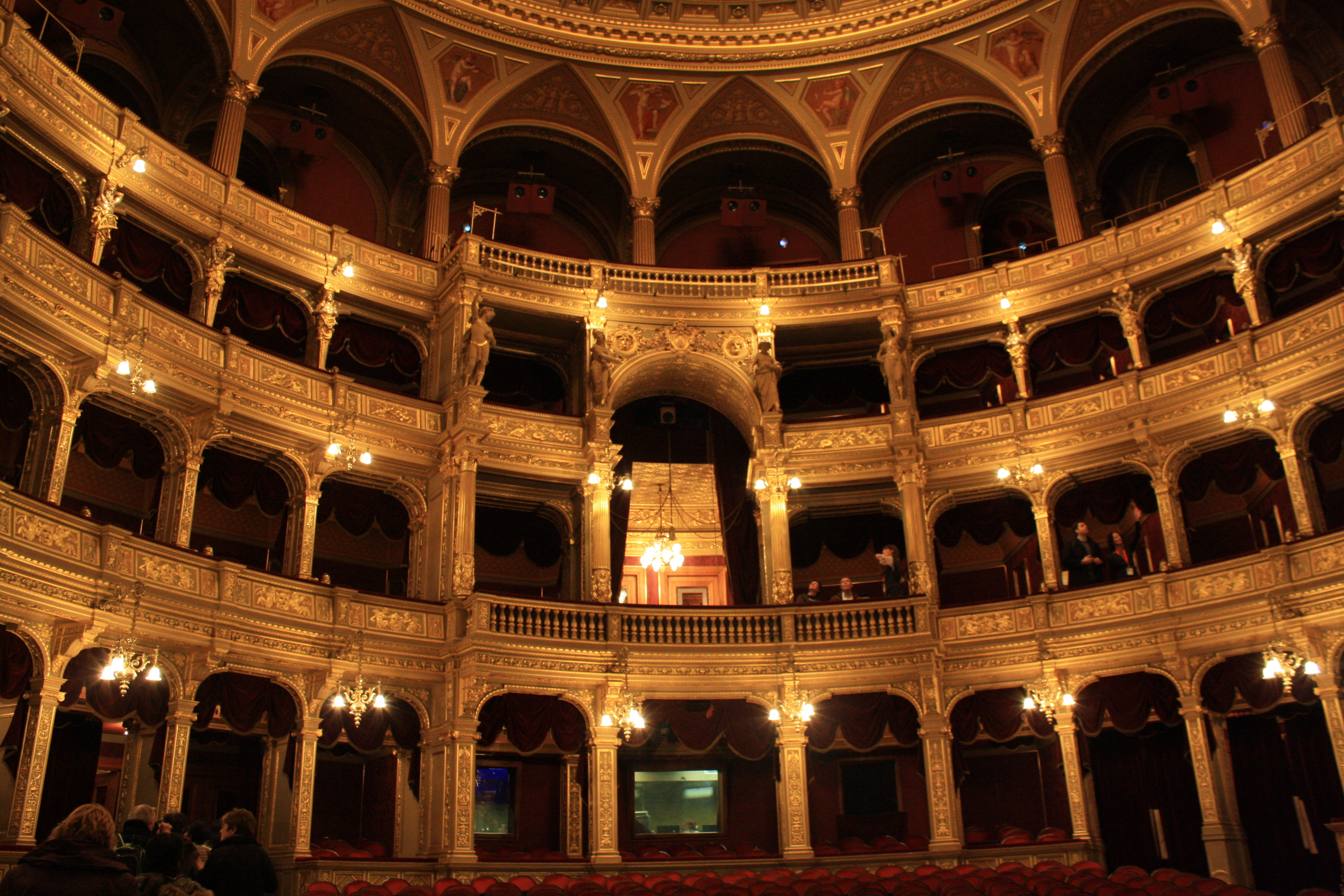 The interior of the Opera House in Budapest.